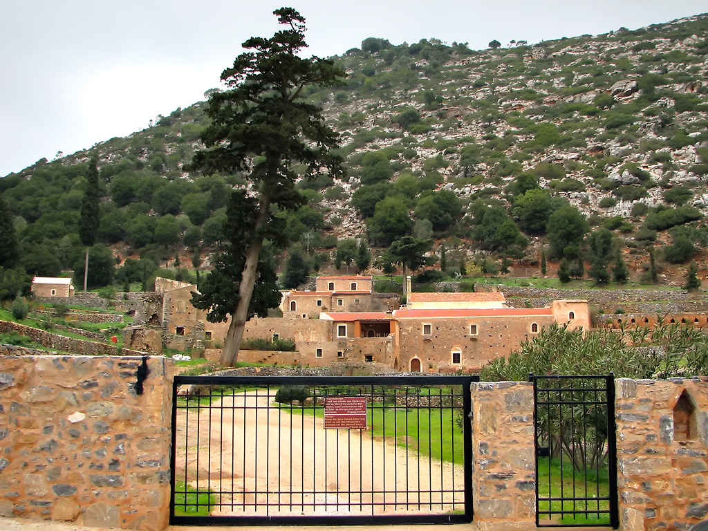 Vossakos Monastery